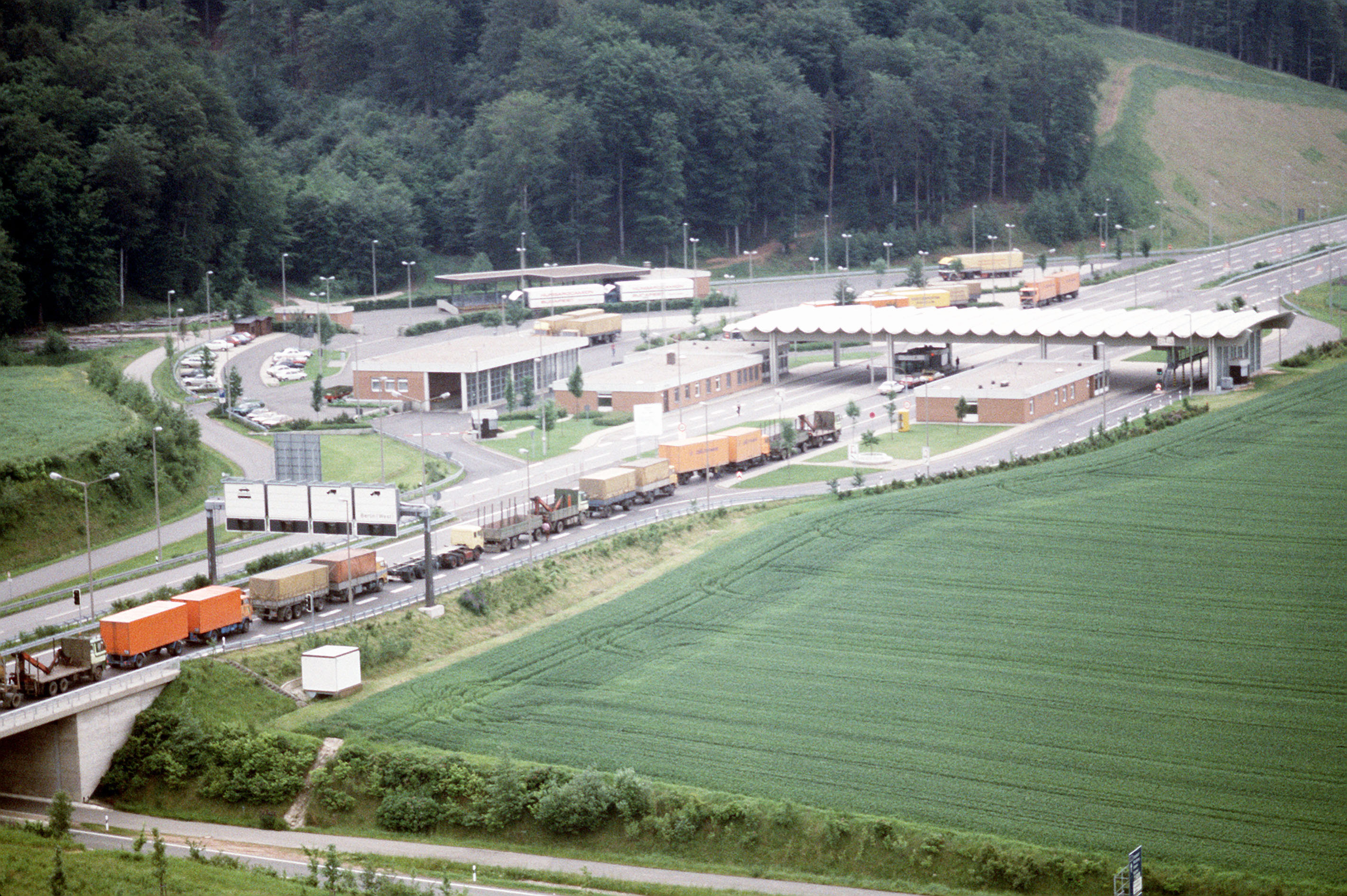 Crossing border Wartha-Herleshausen between East and West Germany, the buildings in the picture were located in West Germany, at Herleshausen, Hesse.